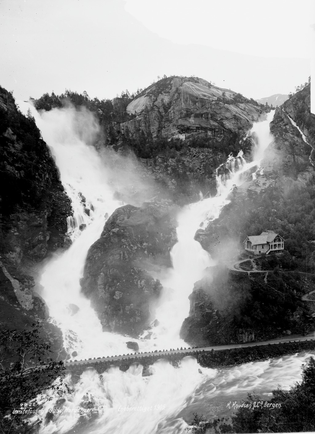 Photo by Knud Knudsen (author died in 1915, photo taken between 1895 and 1900) Låtefossen image file